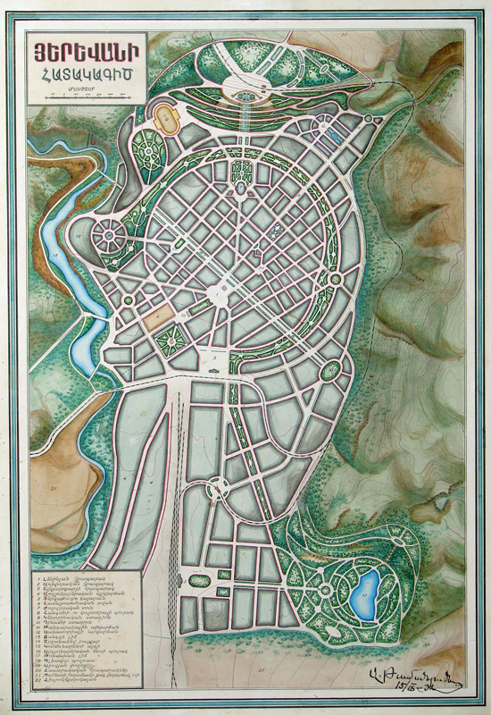 Yerevan map by Tamanyan